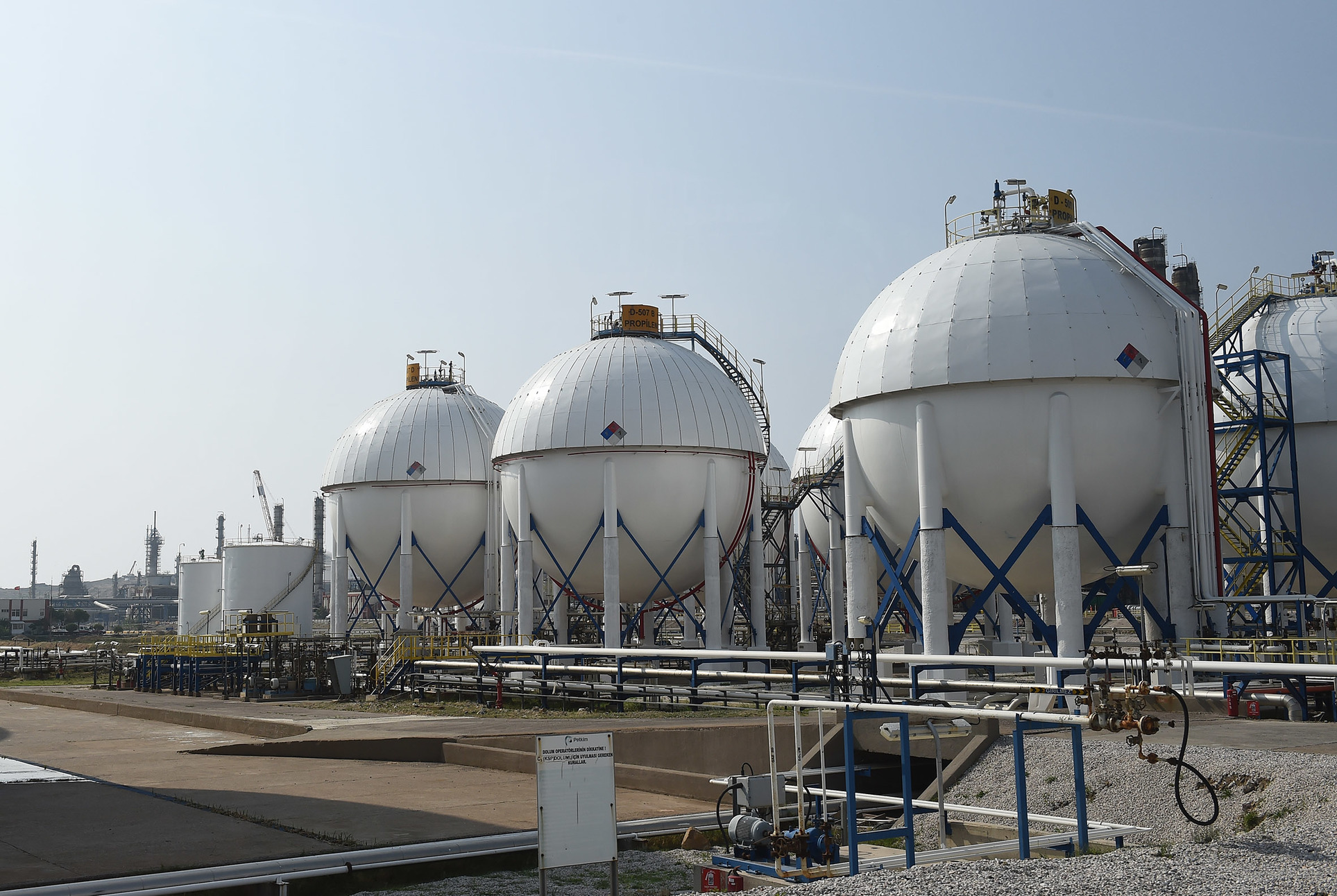 SOCAR Turkey Aegean Refinery (STAR), Aliağa, İzmir Turkey.